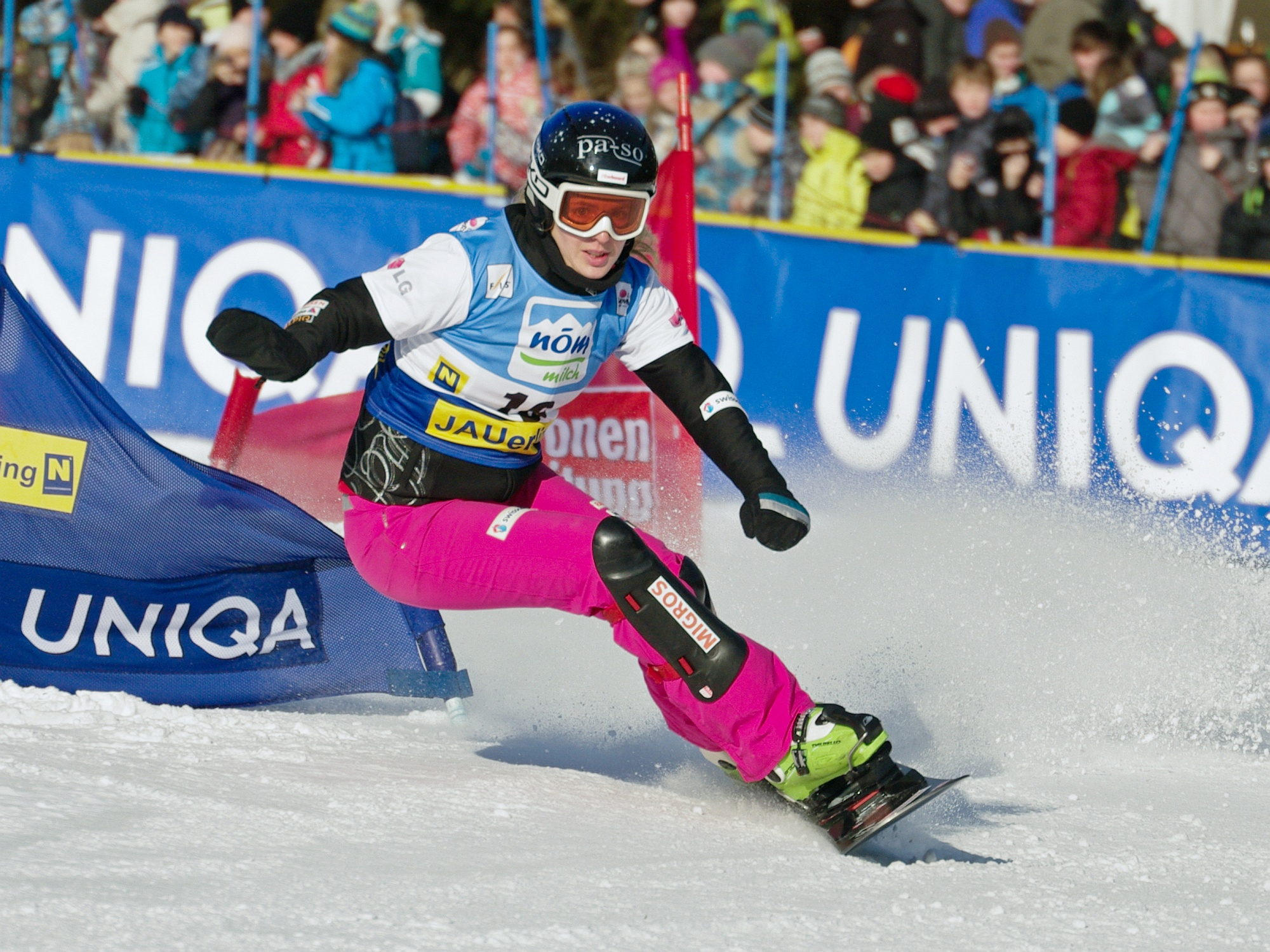 Swiss snowboarder Patrizia Kummer in the qualification round of the World Cup Parallel Slalom at the Jauerling in Austria on 13 January 2012.